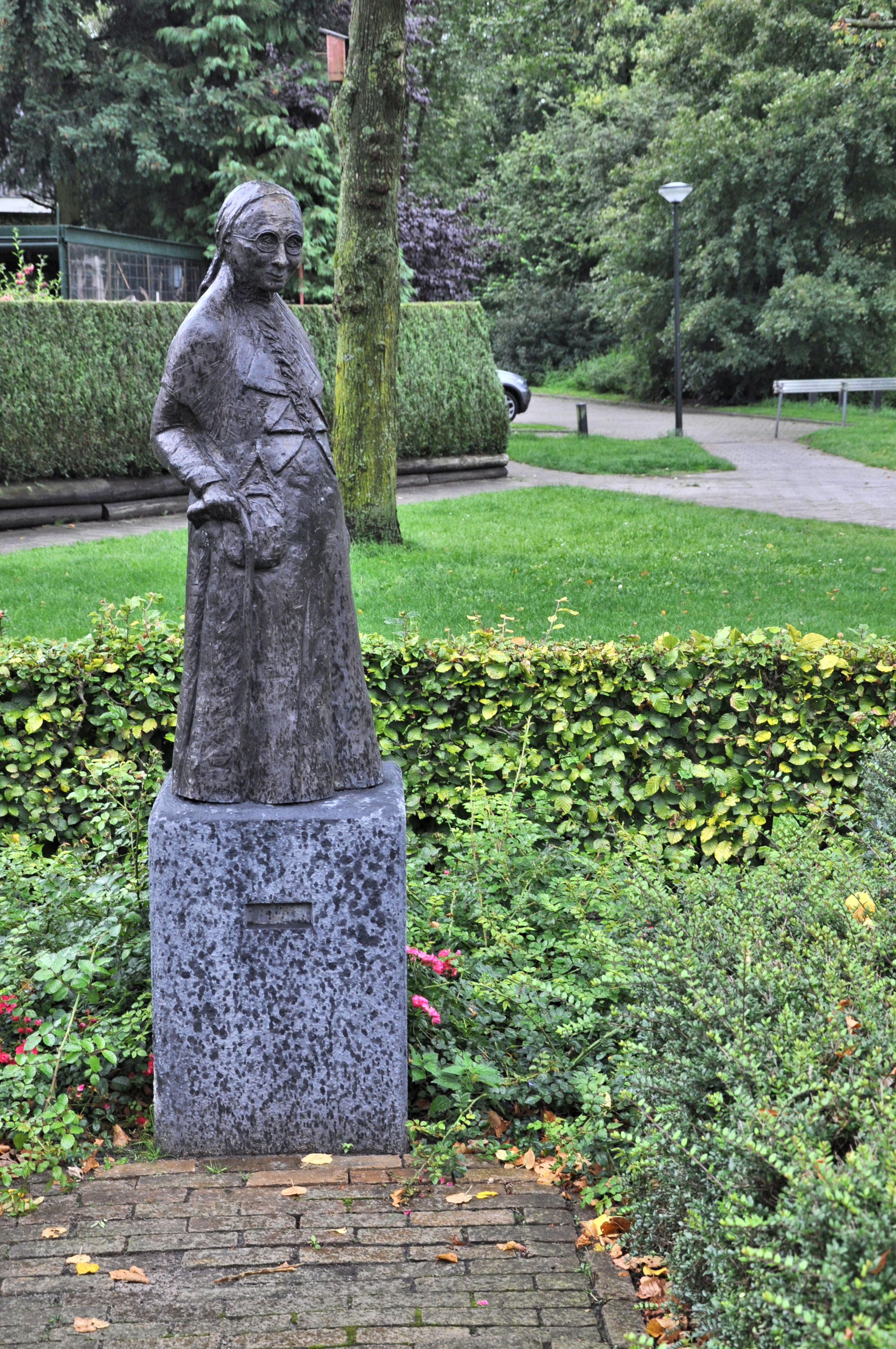 Statue Beekbergen, Apeldoorn The Netherlands